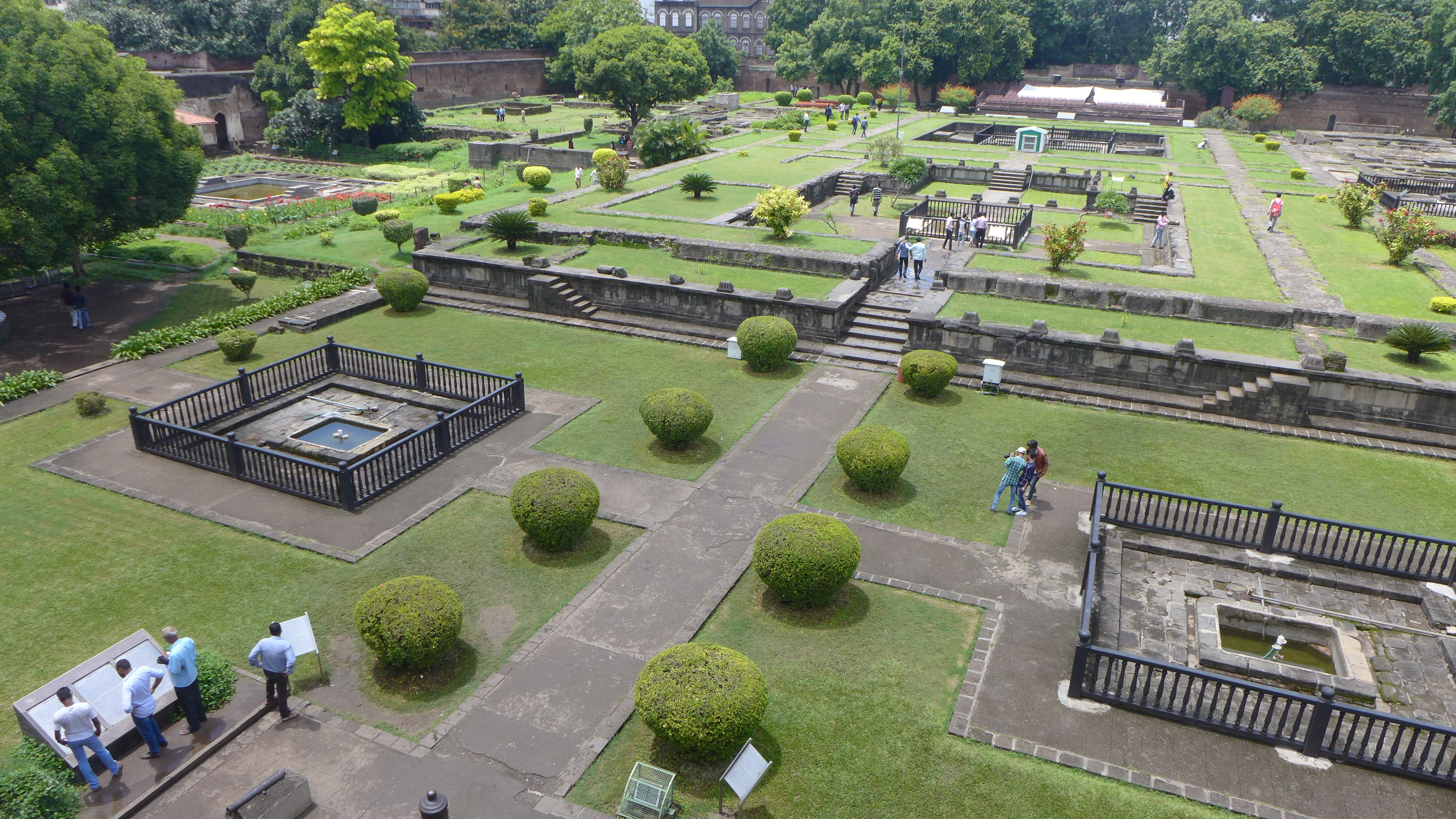 Gardens of Shaniwar Wada.